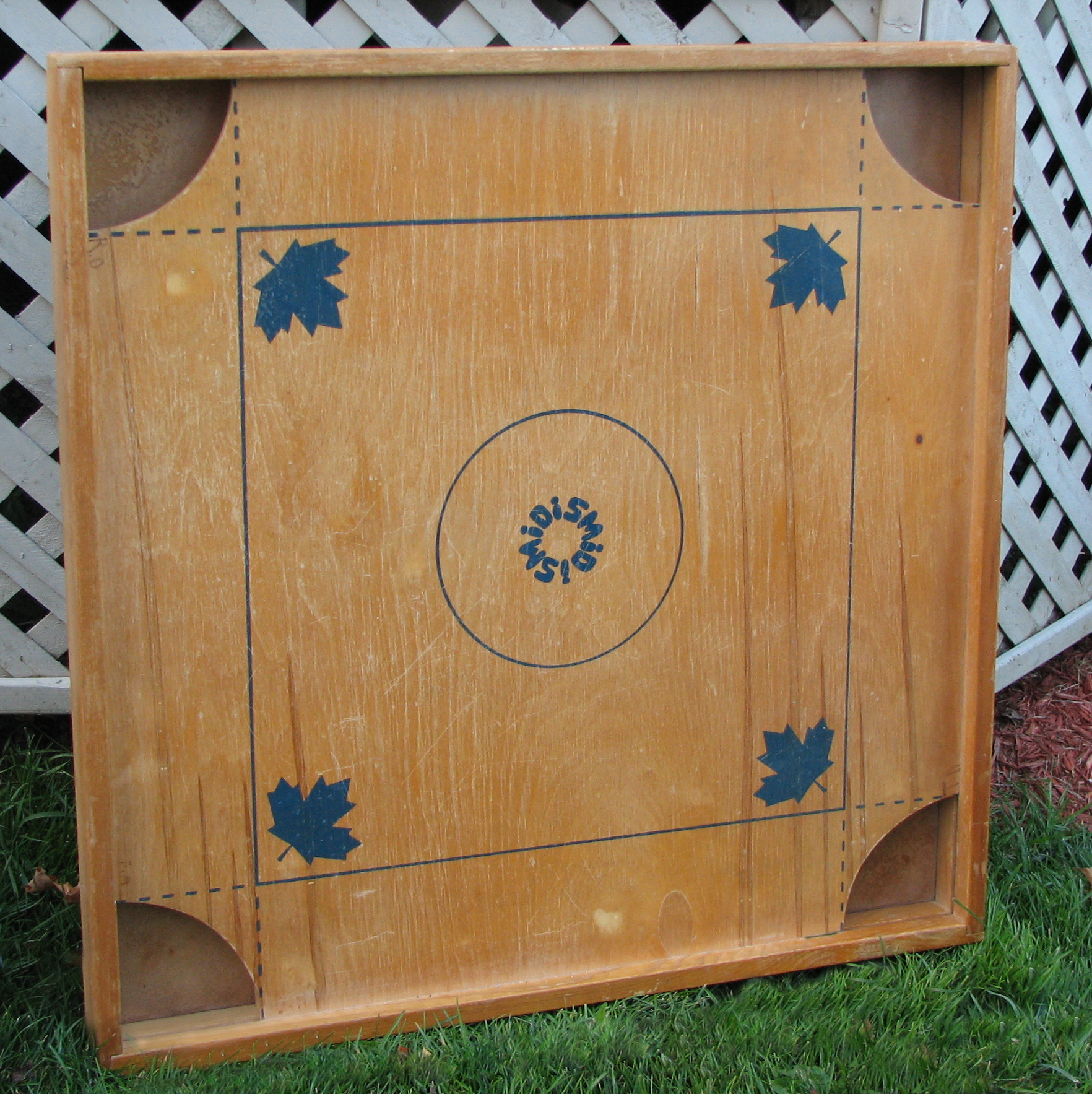 A pichenotte board in St. Edwidge, Quebec, 2007.